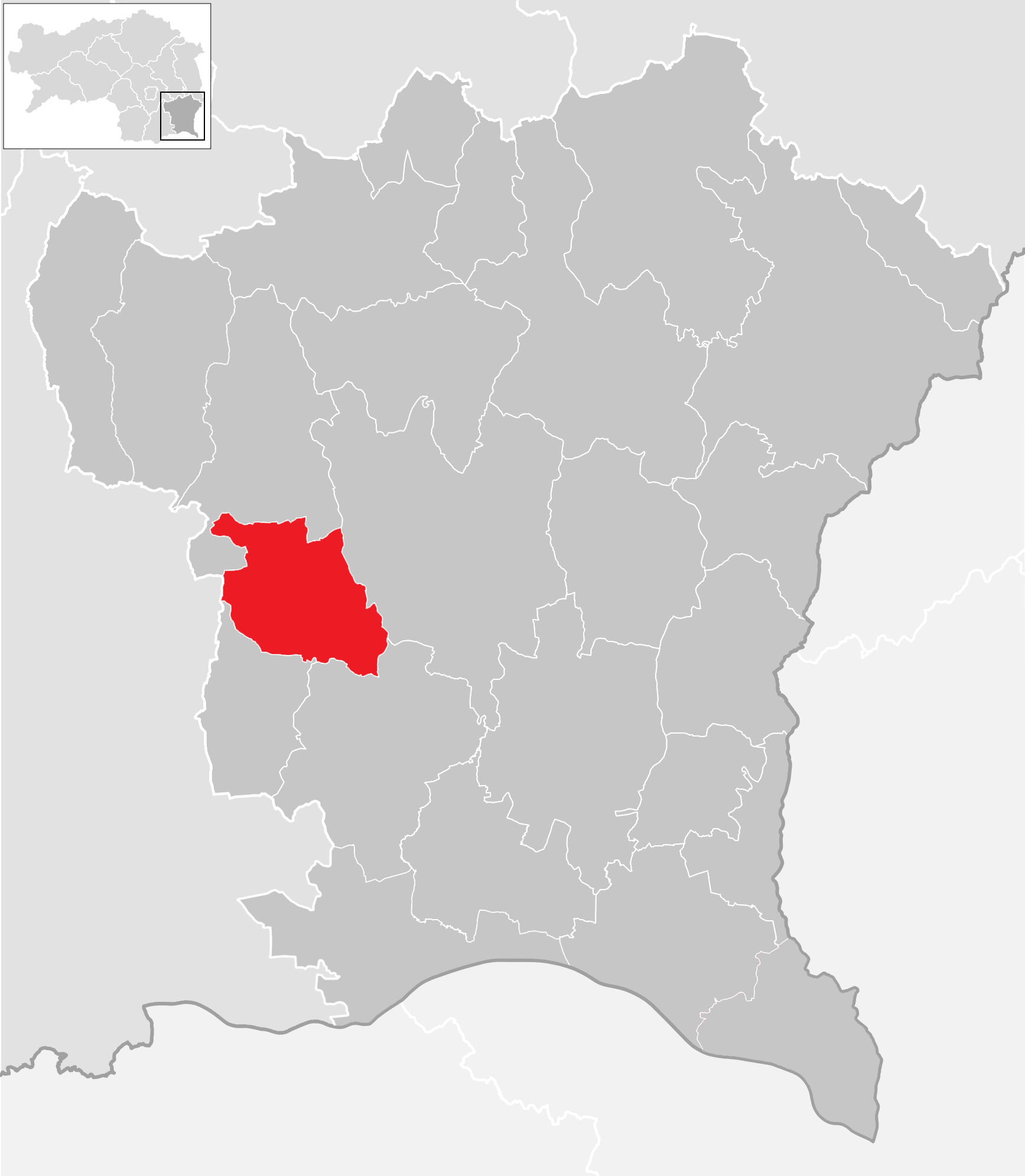 district Südoststeiermark